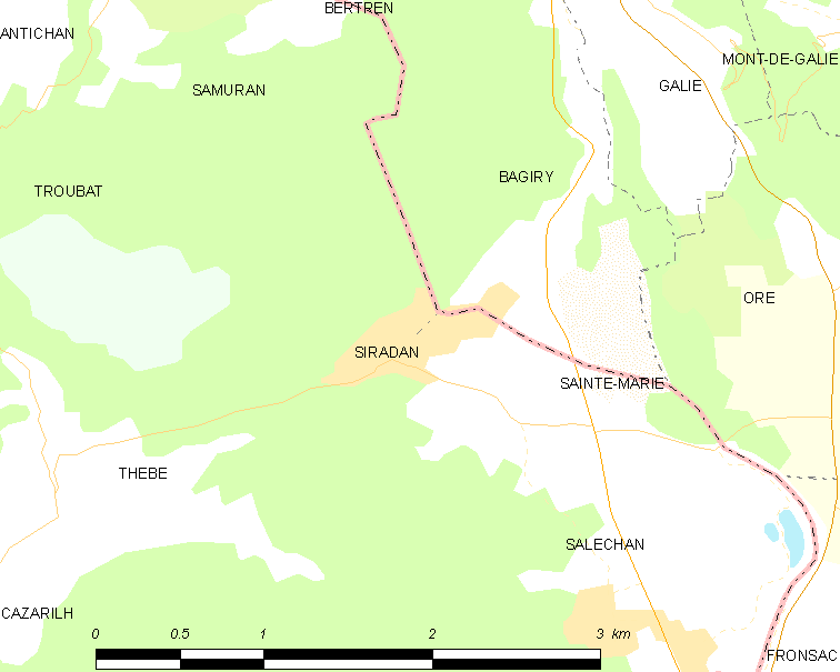 Map of French municipality